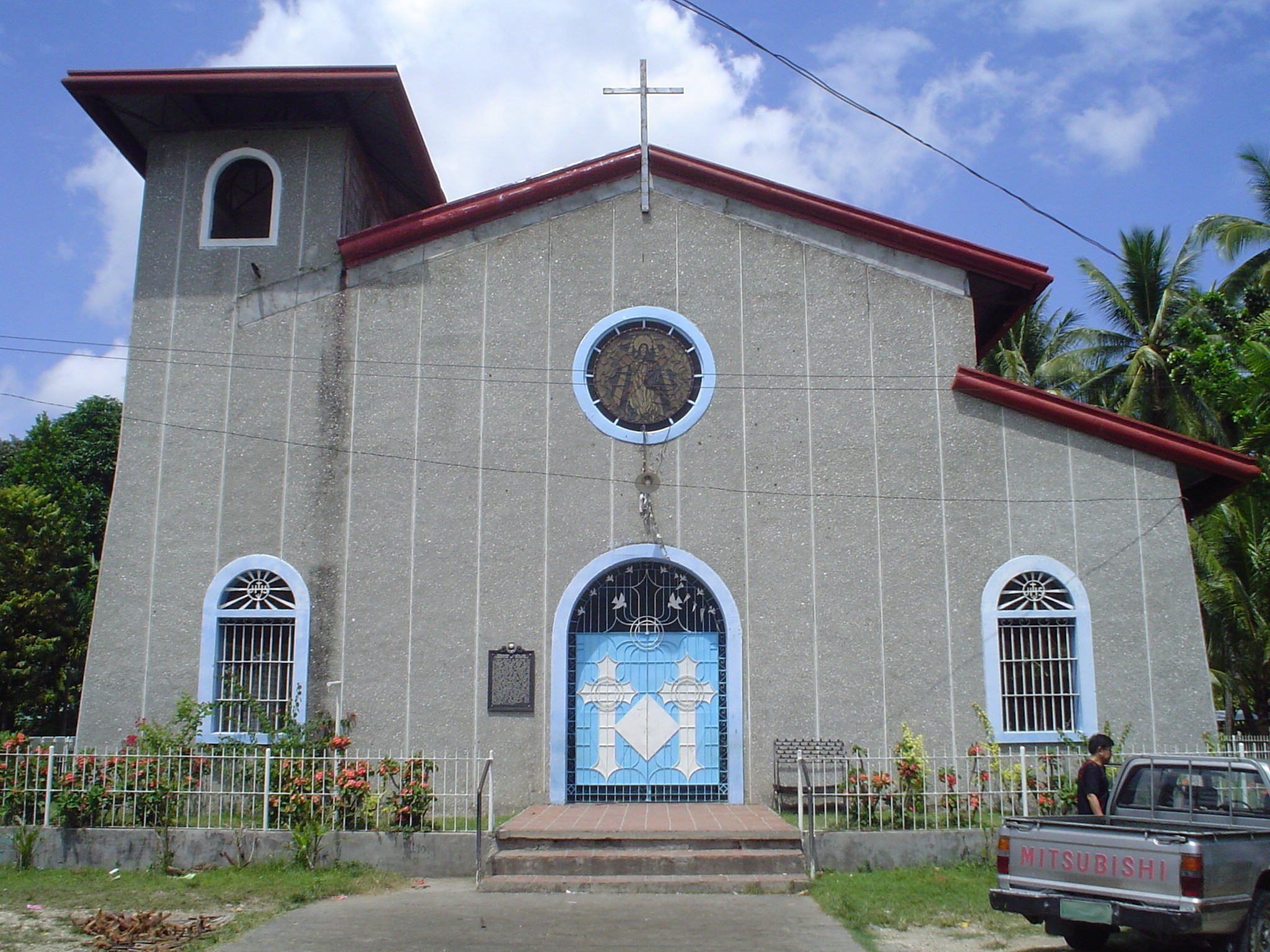 Church of the Immaculate Conception of Tamontaka, Maguindanao